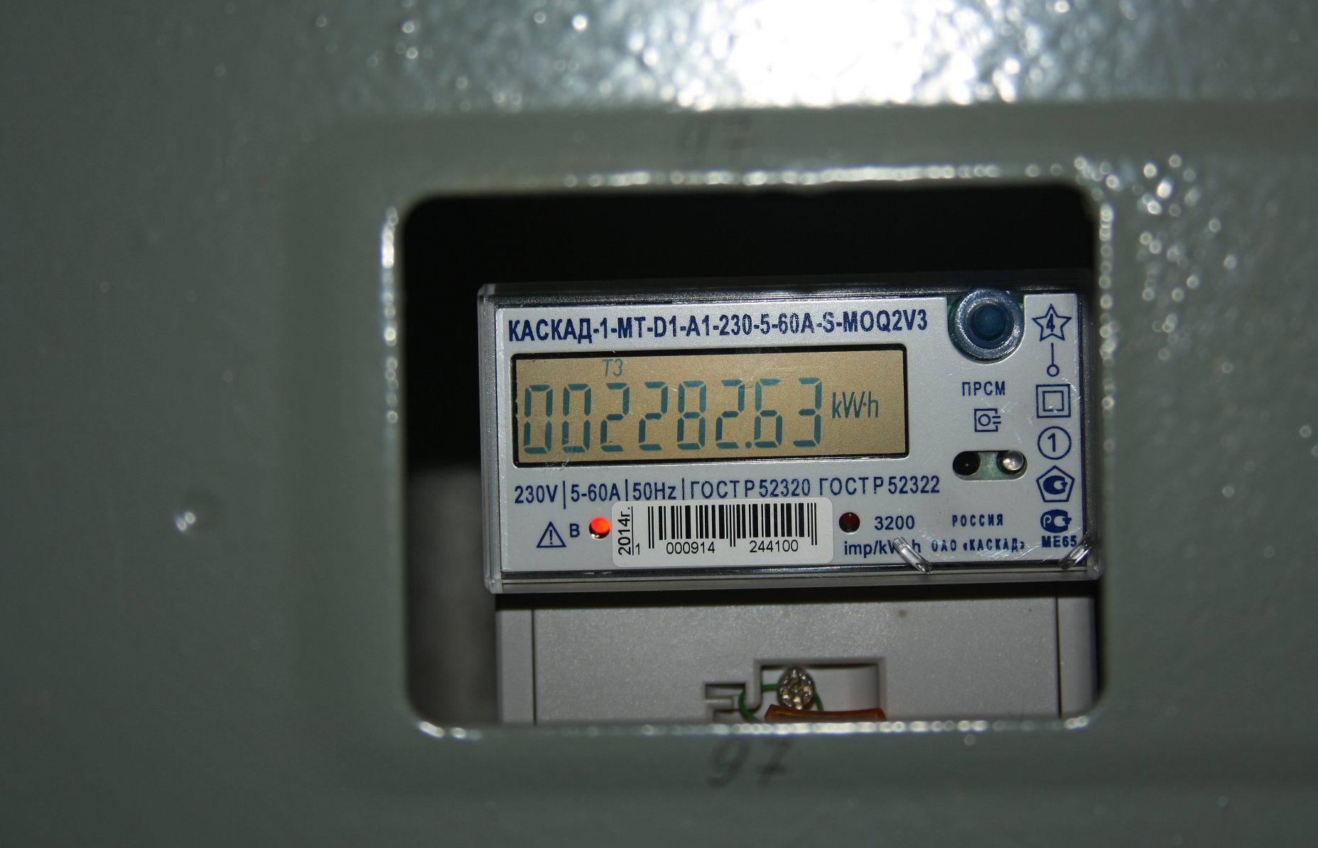 Electricity meter